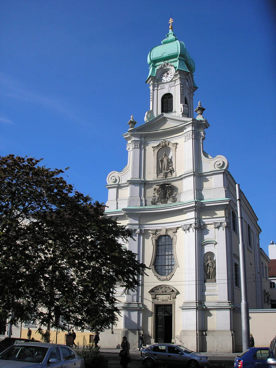 St. Elizabeth church in Bratislava, Slovakia